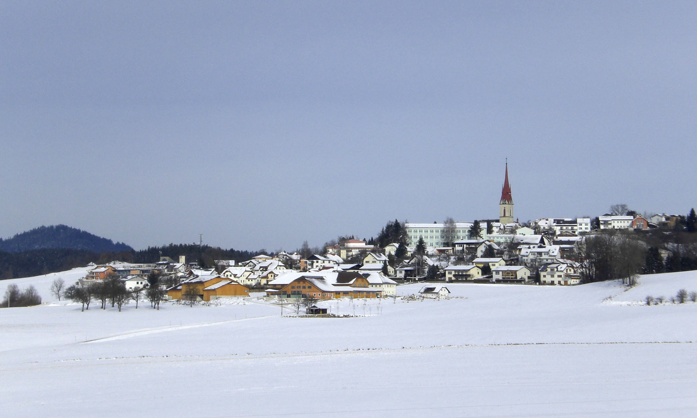 Neumarkt im Mühlkreis, Upper Austria